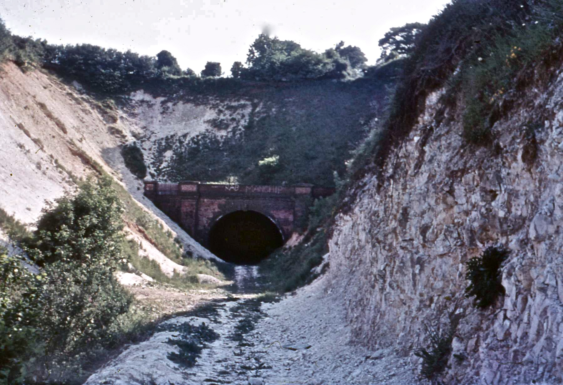 1970 tunnel still open